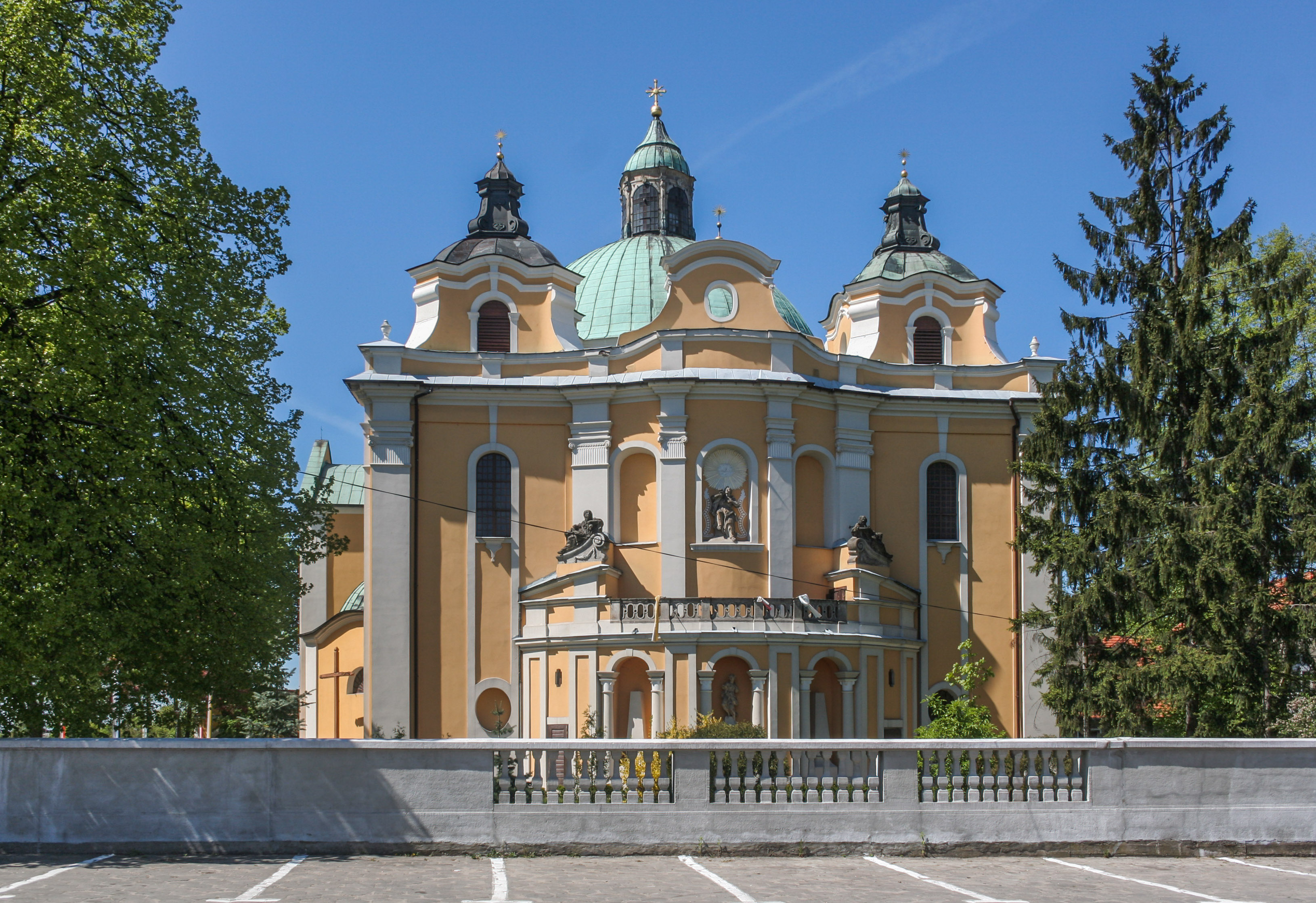 Trzemeszno, Poland, basilica of St. Mary and Saint Michael, former church of Canons Regular, built in 10th century, rebuild in 12th, 15th. In 18th century substantially rebuilt according to design of Ephraim Schroeger